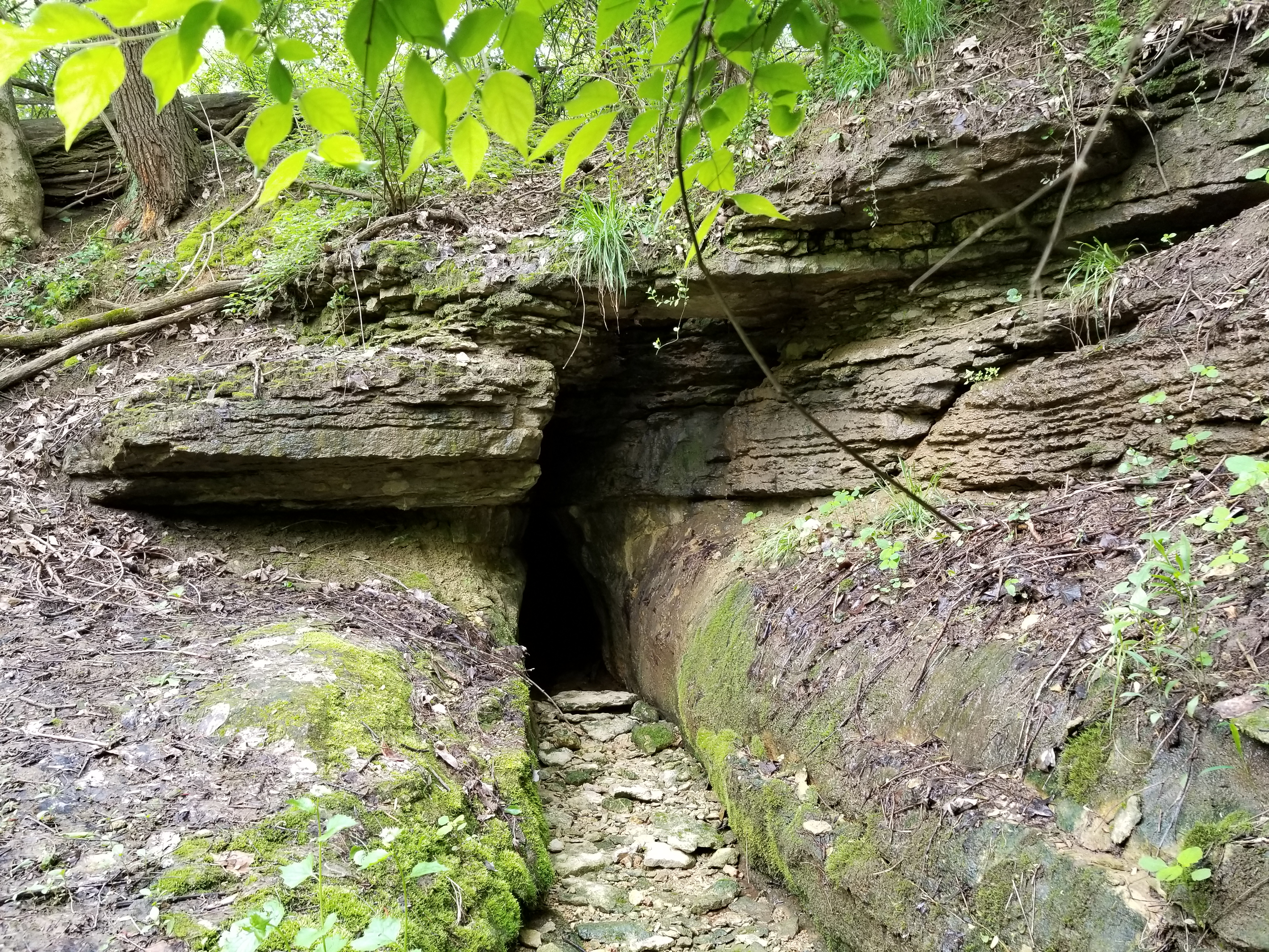 This is the entrance of the Eleven Jones Cave, on the west bank of the South Fork of Beargrass Creek, in Louisville, KY, in the Spring of 2019.